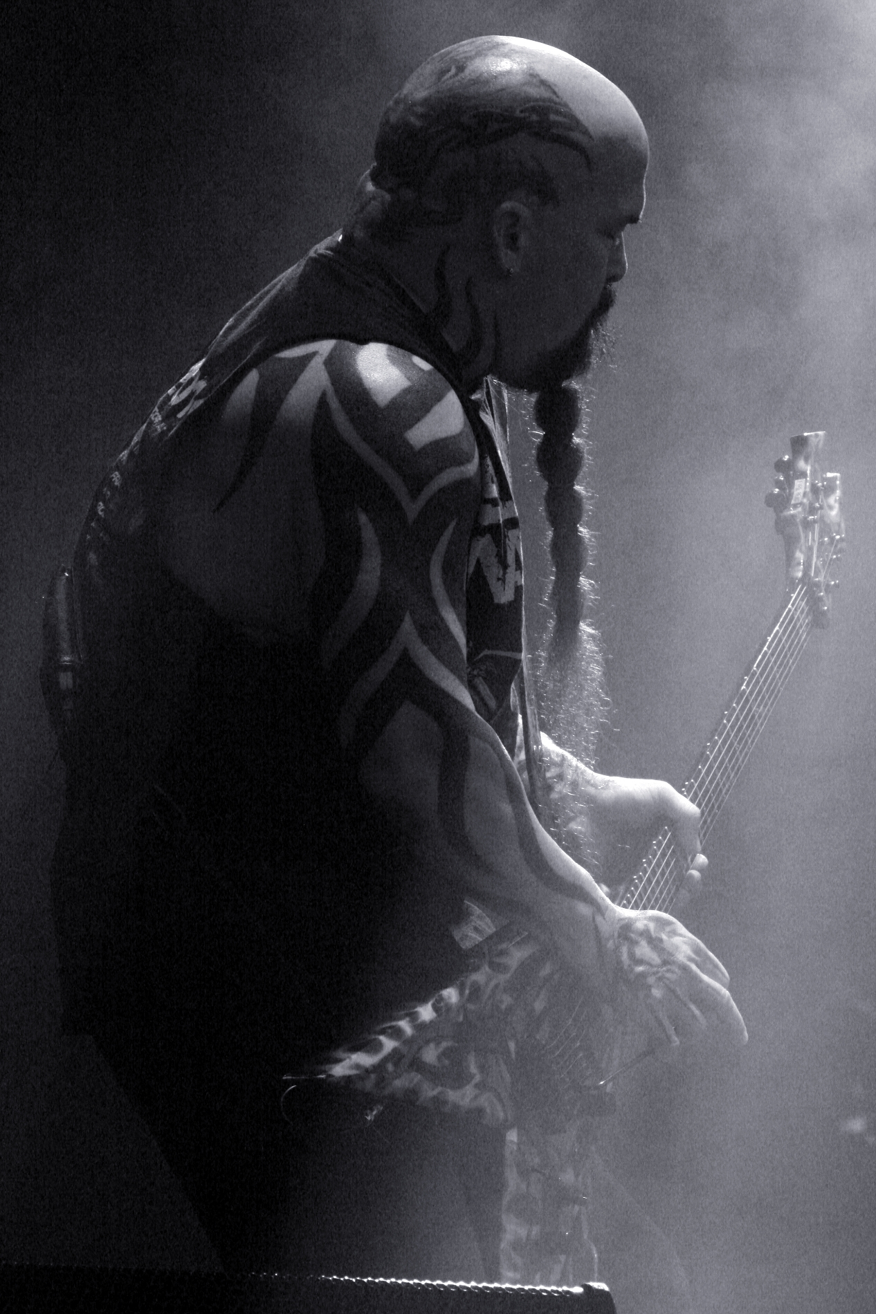 Kerry King, guitarist of Slayer, Rock im Park Festival 2014. Festivalsommer This photo was created with the support of donations to Wikimedia Deutschland in the context of the CPB project "Festival Summer".